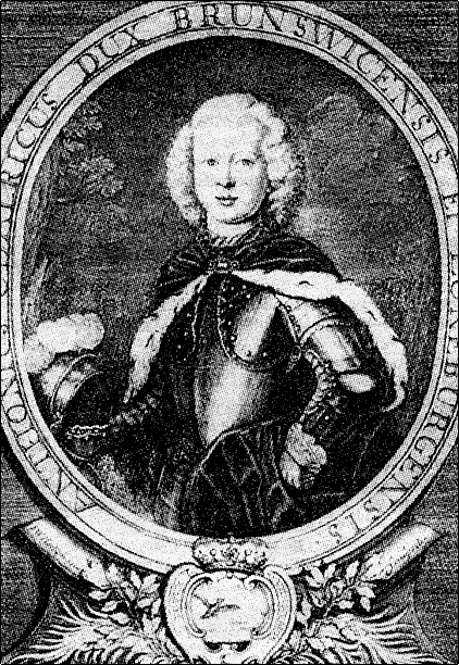 Portrait of Duke Anthony Ulrich of Brunswick (1714-1774)